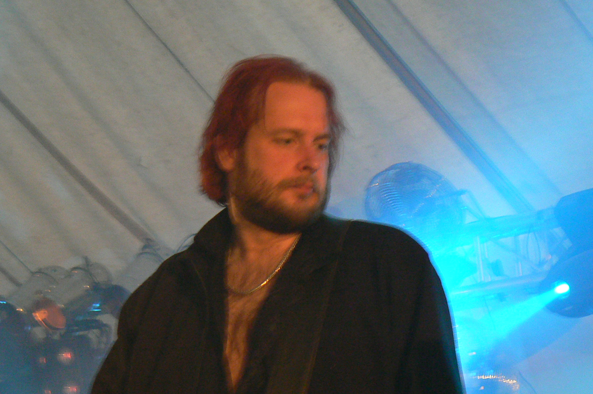 Daffy Terävä, guitarist of the Finnish rock band Yö